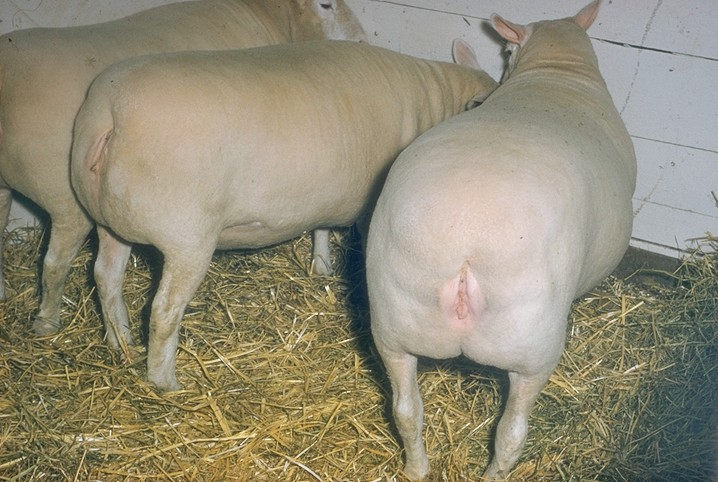 Agriculture show in Toulouse (France)